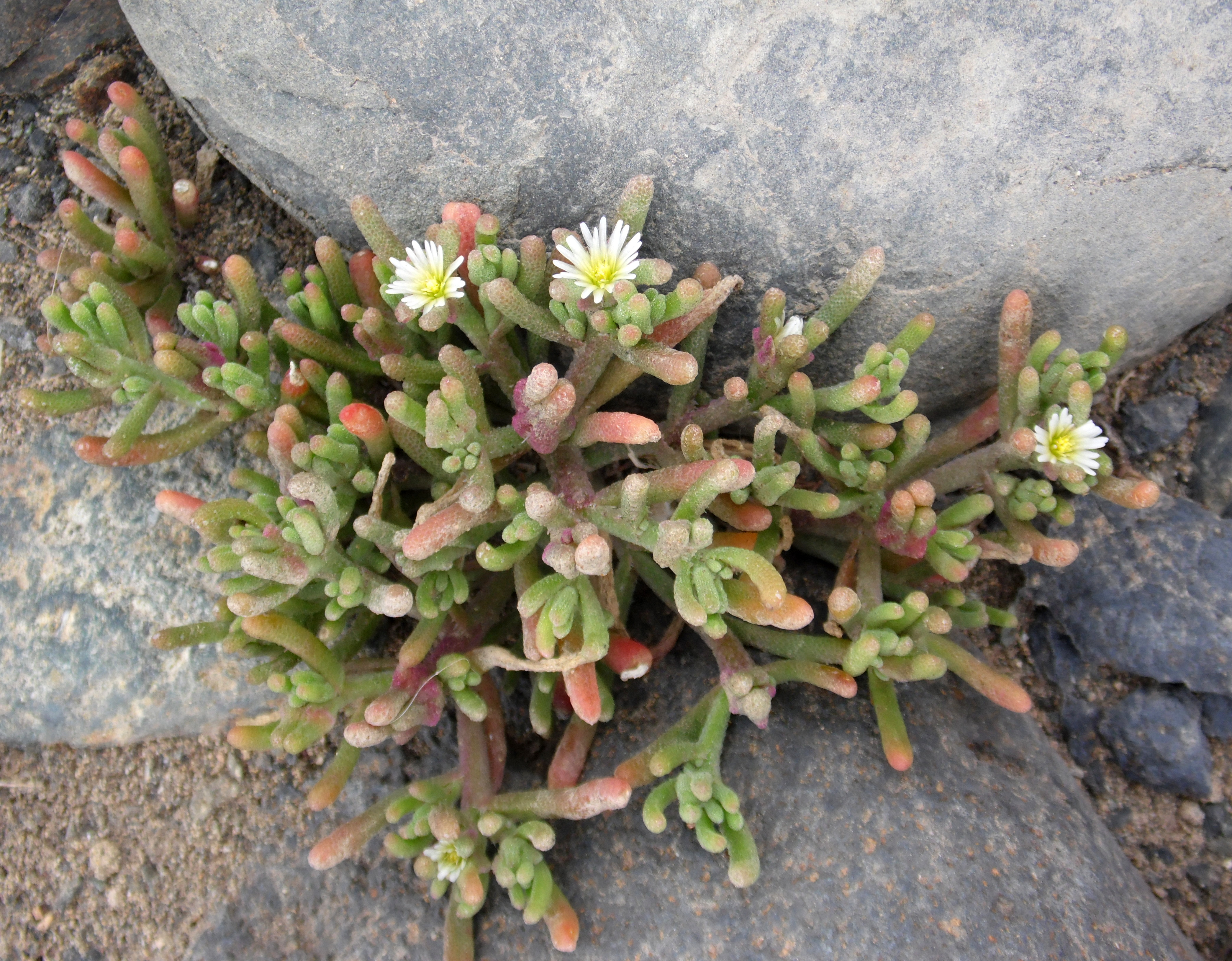 Mesembryanthemum nodiflorum in Pozo de Izquierdo on Gran Canaria